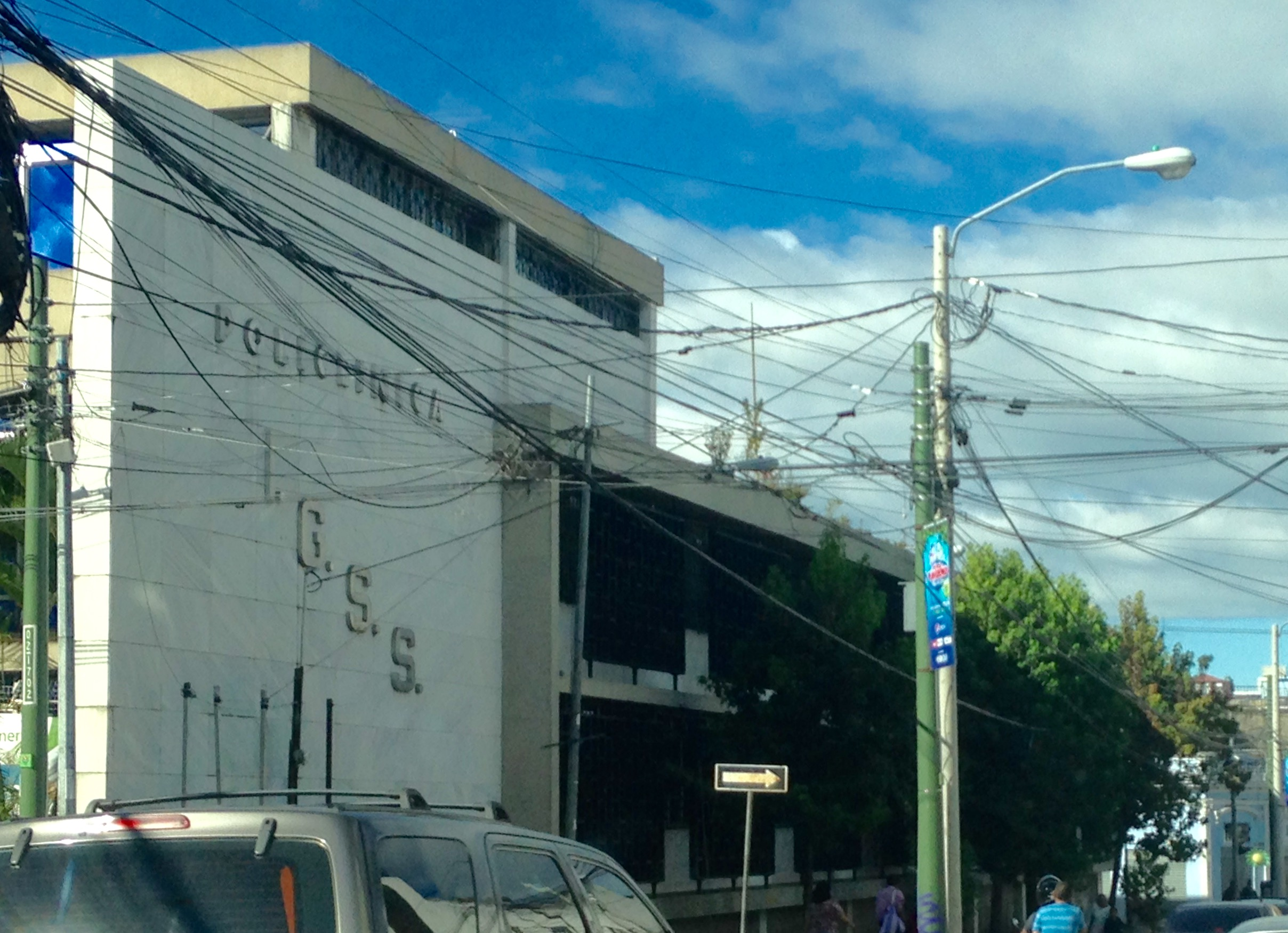 Políclina del IGSS en el centro histórico de la Ciudad de Guatemala en diciembre de 2015.